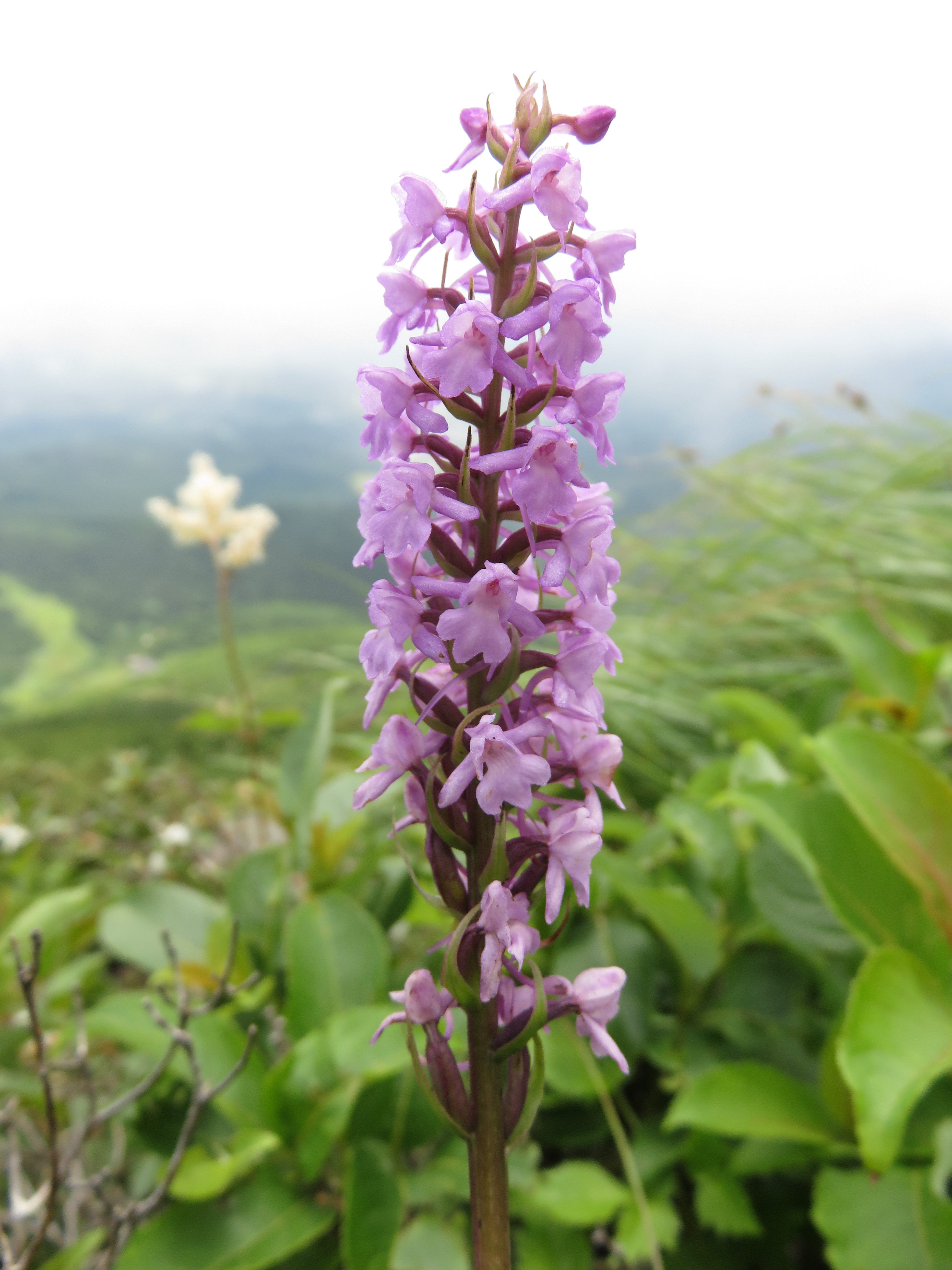 Gymnadenia conopsea, Mount Bandai-san, Fukushima pref., Japan